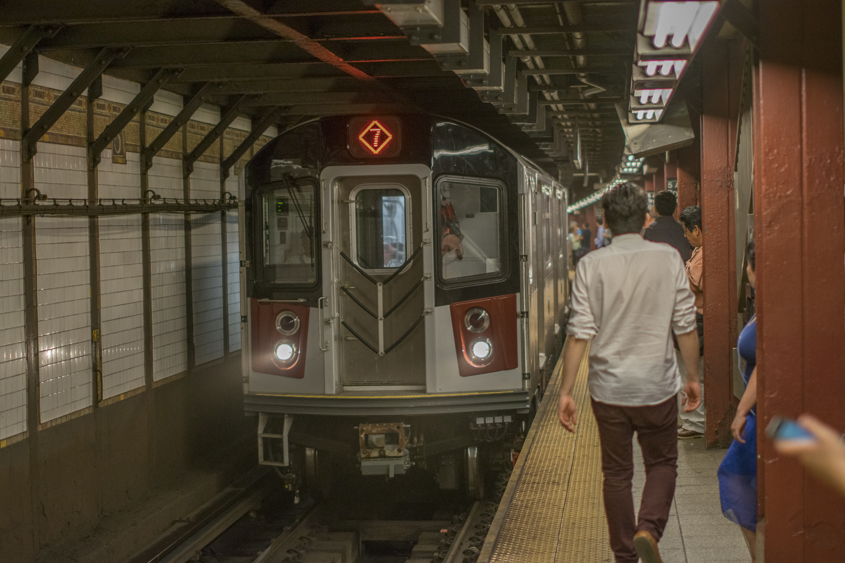 A consist of Kawasaki R188s, many of which are R142As converted to the former, enters 5th Avenue- Bryant Park on the 7, en route to Flushing- Main Street in Queens.